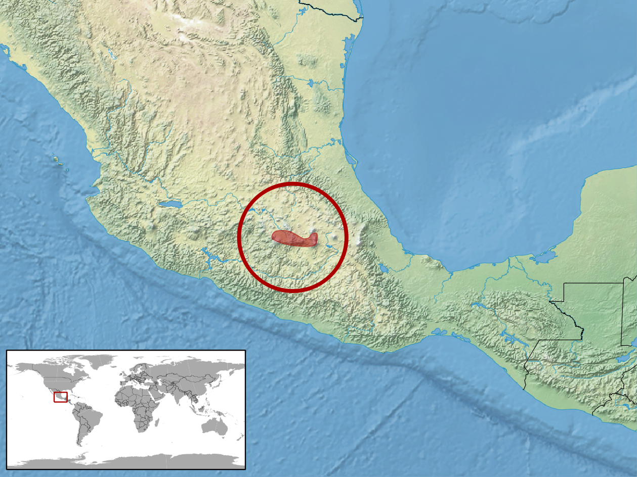 geographic distribution of Plestiodon copei